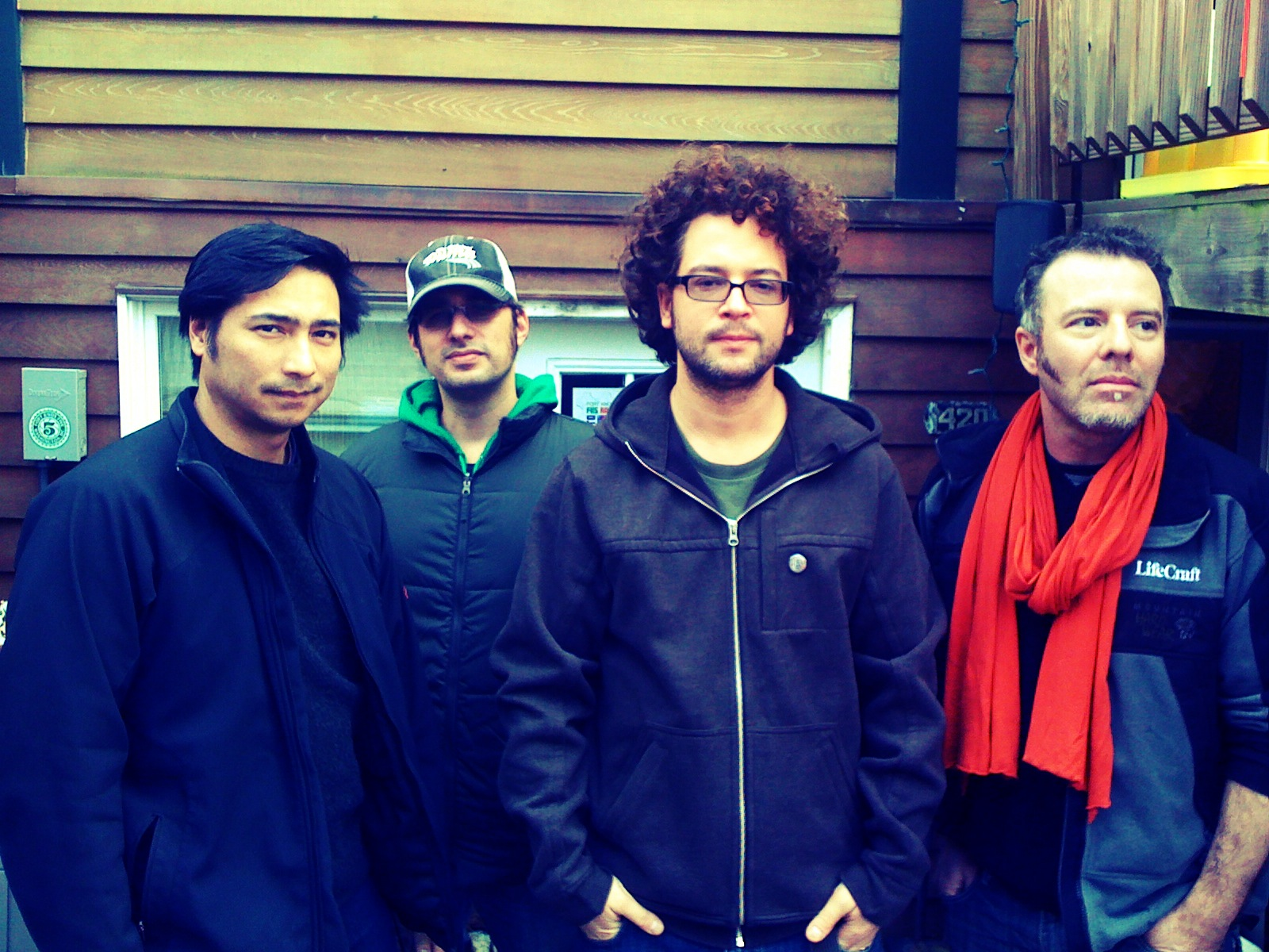 Photo of Sid Barcelona, Steve, Raskin, Jon Horvath, and Rob Myers of Fort Knox Studios, Washington, DC